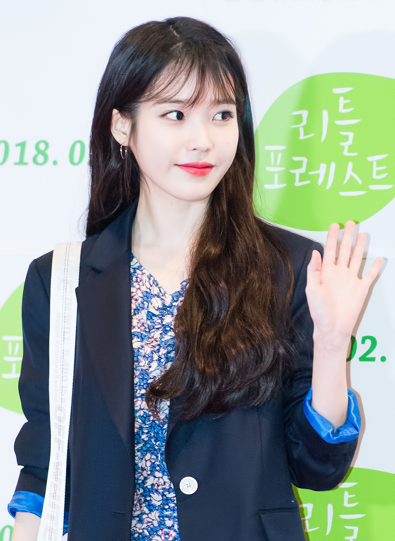 IU at Little Forest VIP premiere on February 26, 2018.